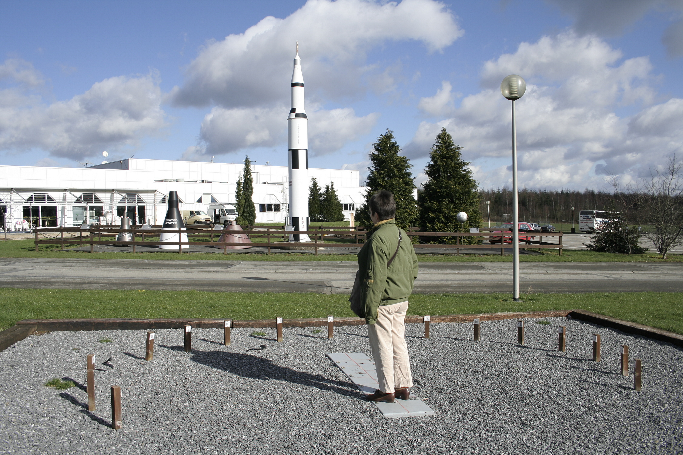 Redu (Belgium), Euro Space Center - The analemmatic sundial.